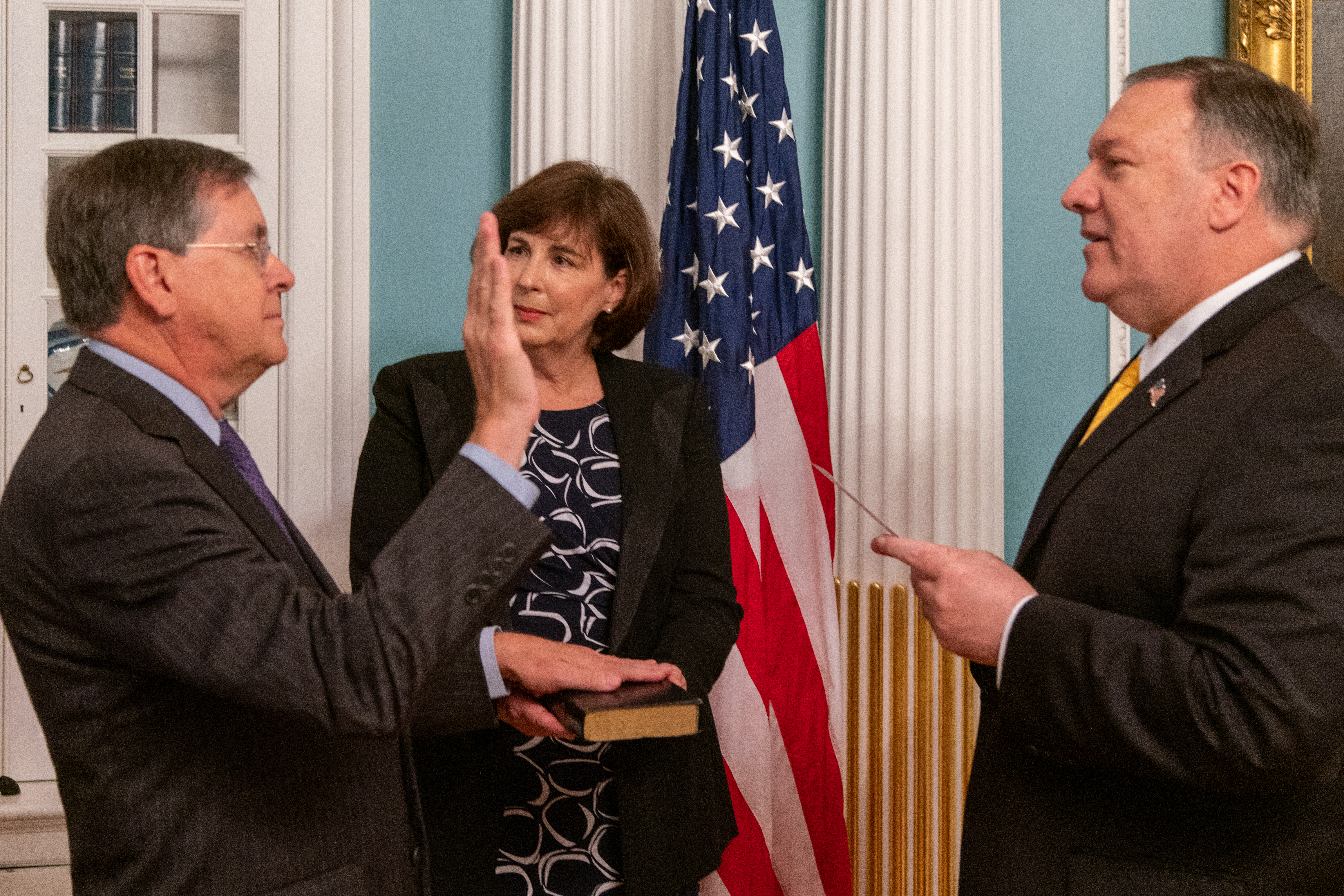 U.S. Secretary of State Michael R. Pompeo officiates the swearing-in ceremony for David Satterfield as U.S. Ambassador to Turkey, at the U.S. Department of State in Washington, D.C., on August 14, 2019. [State Department photo by Ron Przysucha/ Public Domain]